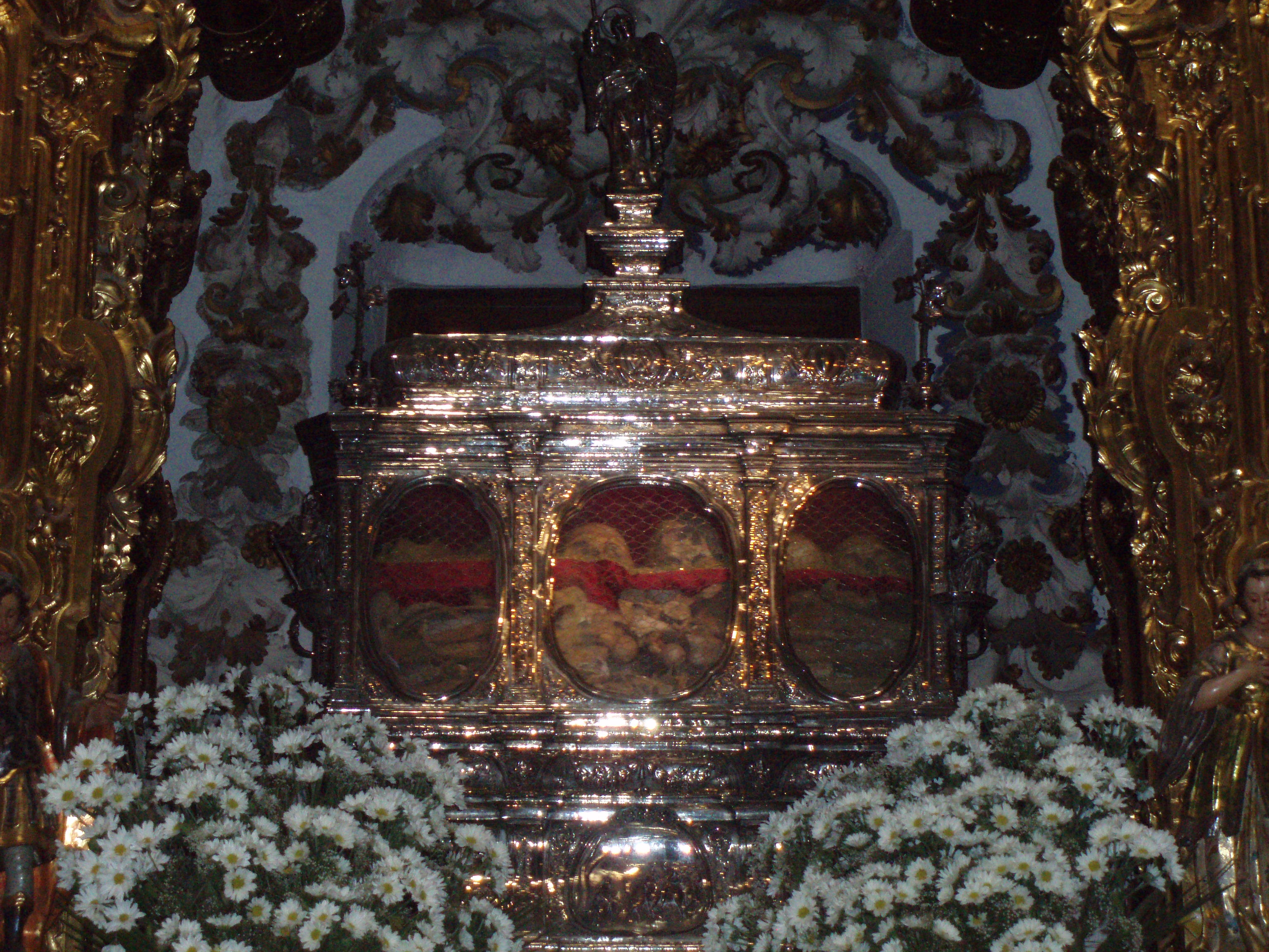 Church of Saint Peter, in the city of Córdoba. (Spain).